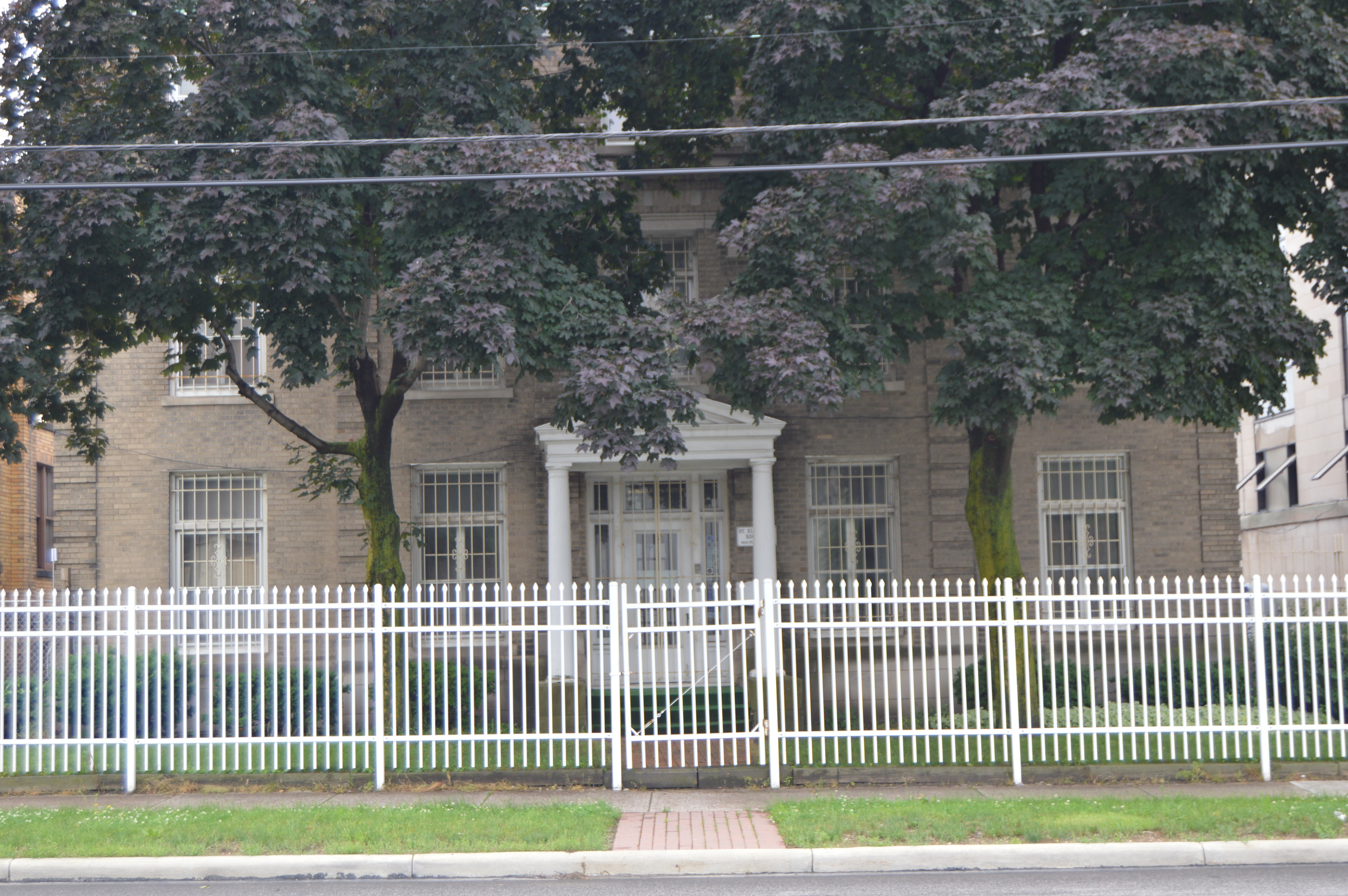 Front of St. Elizabeth's Rectory, located adjacent to St. Elizabeth's Catholic Church at 9016 Buckeye Road in Cleveland, Ohio, United States.